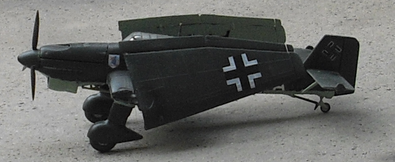 Model of a Junkers Ju 87C with equipment for Graf Zeppelin carrier.The original photo and some more are stored in